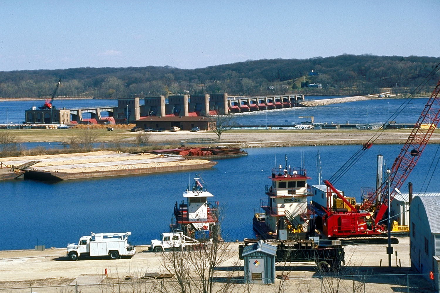 Aerial view of Lock and Dam 14 located on the Mississippi River, Le Claire, Iowa.